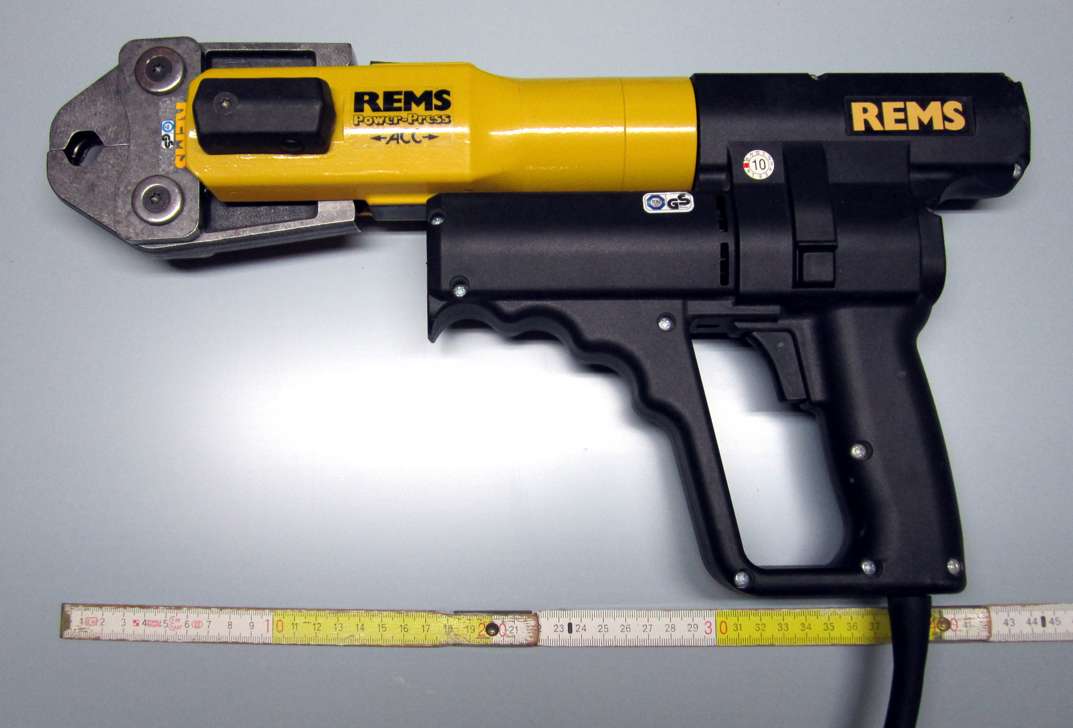 Radial Press for making Press Joints in Press Fitting Systems for Steel-, Cooper-, Plasitc- and Composite Pipes. The Press shown is equipped with the pressing head for 15mm diameter pipes